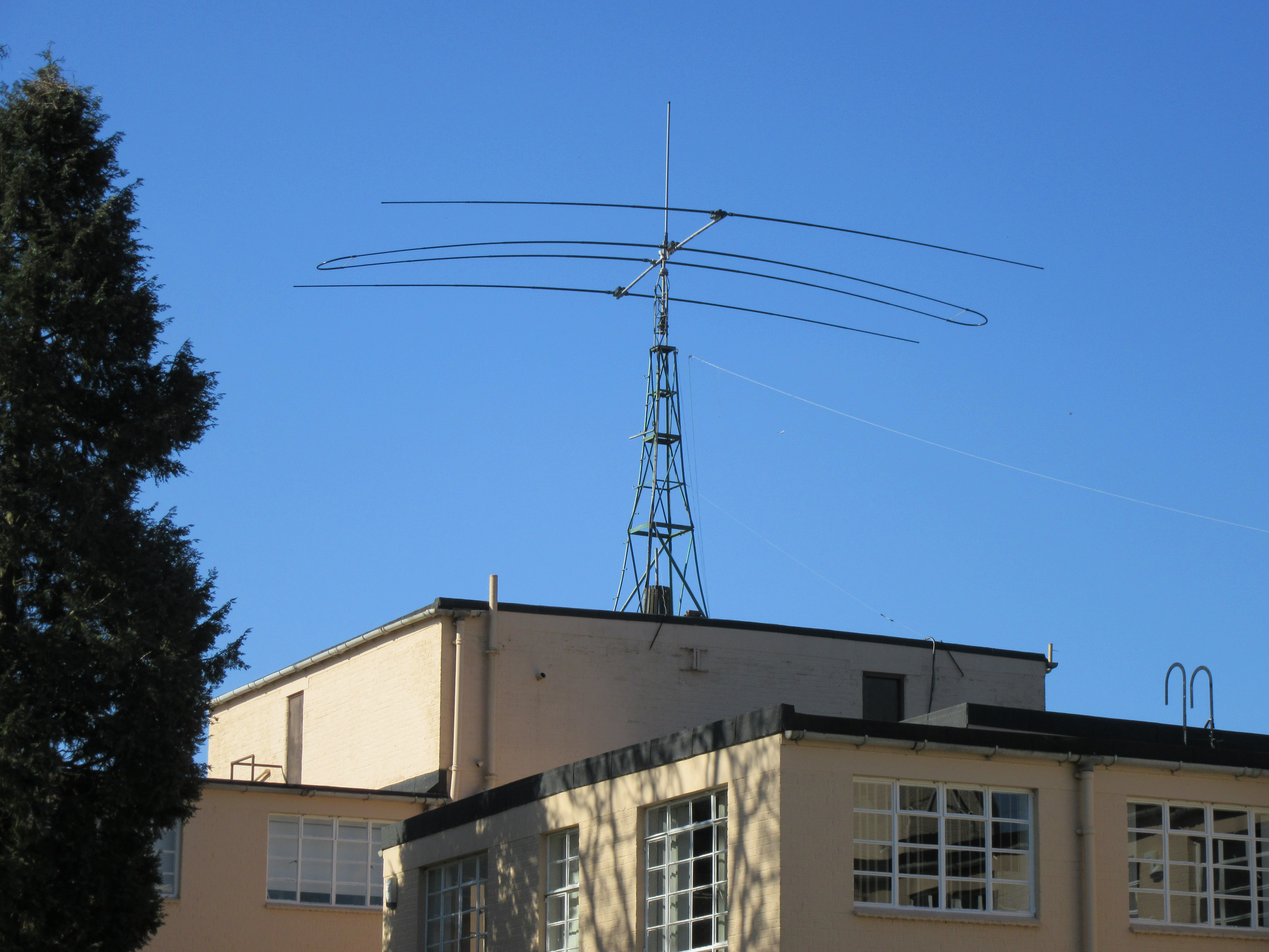 The now disused receiving radio tower at Bletchley Park. This once intercepted enciphered messages during the Second World War, and many ciphers, including Lorenz and Enigma, would later be broken as a result of the volume of data collected.